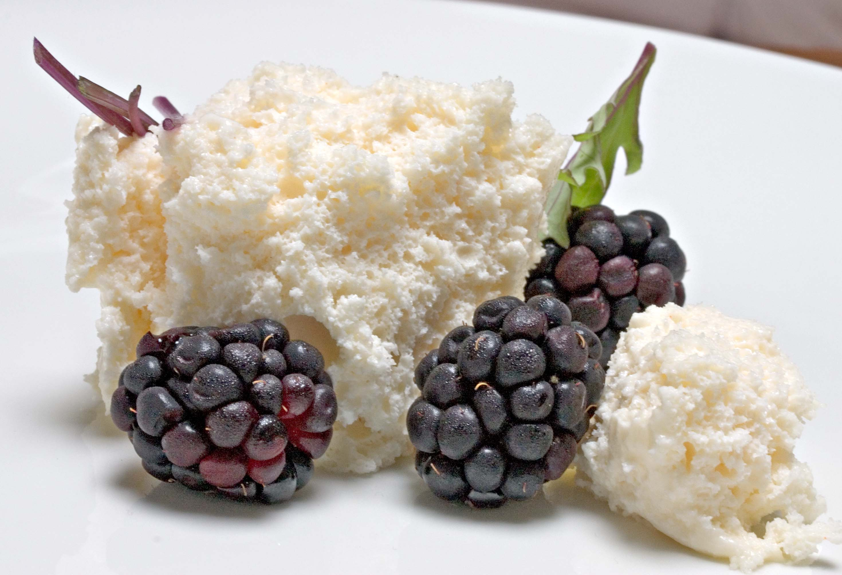 Aerated Brie, blackberries, red mustard